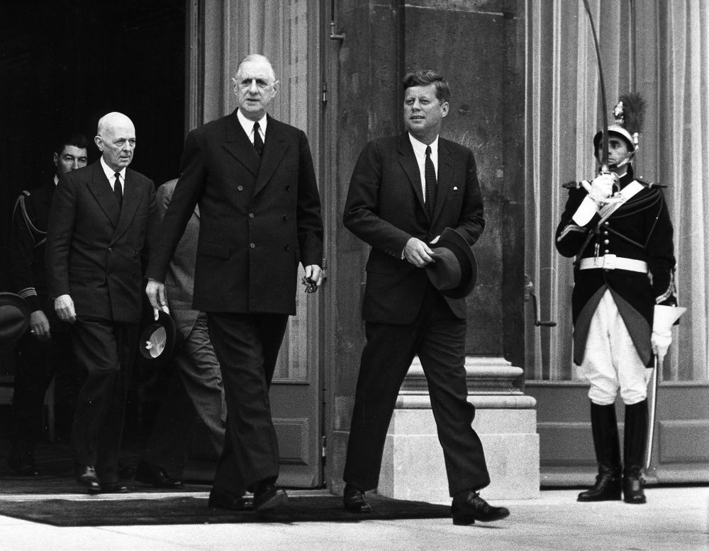 PX 96-33:11 President Kennedy and President De Gaulle at the conclusion of their talks at Elysee Palace, Paris, France. Please credit "John Fitzgerald Kennedy Library, Boston" for the image.